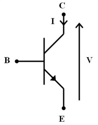 Transistor_BJT